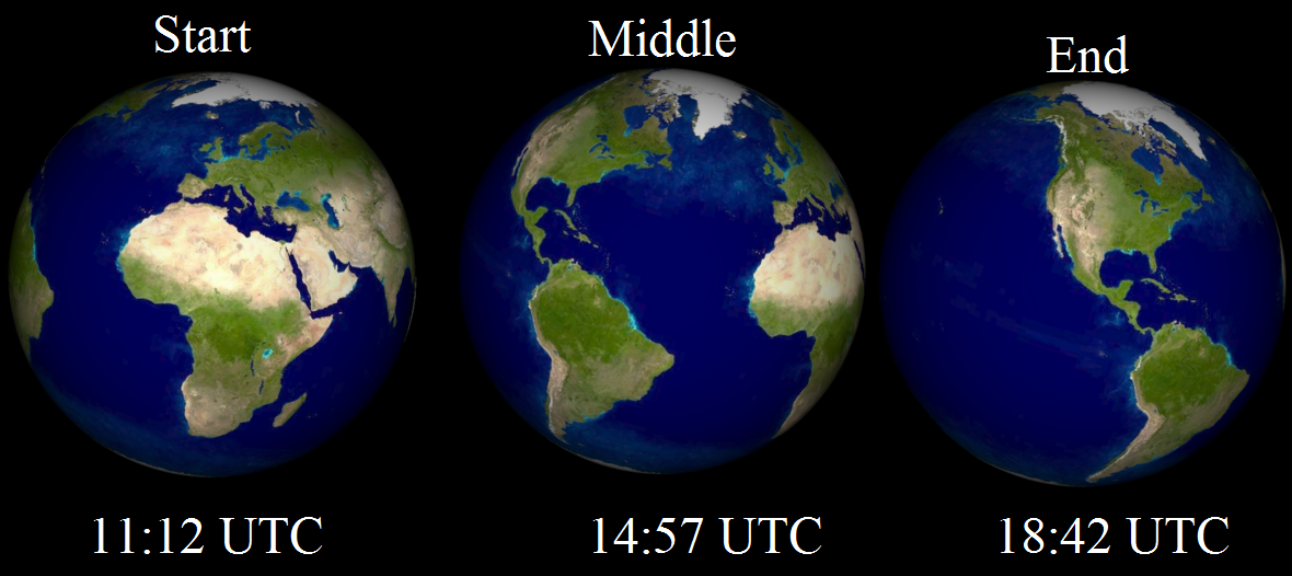 Transit of Mercury